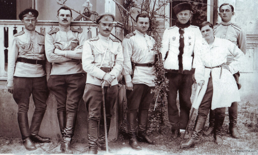 The commander of the Crimean Corps Lt. Gen. Y. A Slashchov (third from right) with his staff ranks: Chief of Staff Corps, Major General G. A. Dubyago (4th from right), an orderly officer of Slaschov N. N. Nechvolodova (right foreground) — later his wife. Crimea, April-May 1920